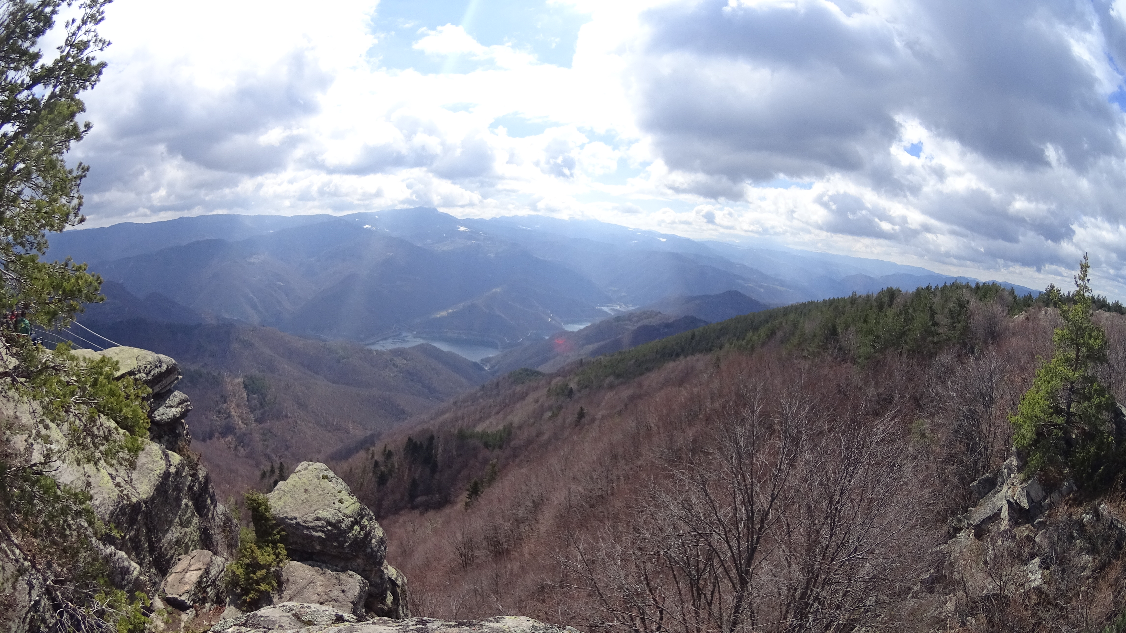 Bekovite skali in western part of Rhodope mountain